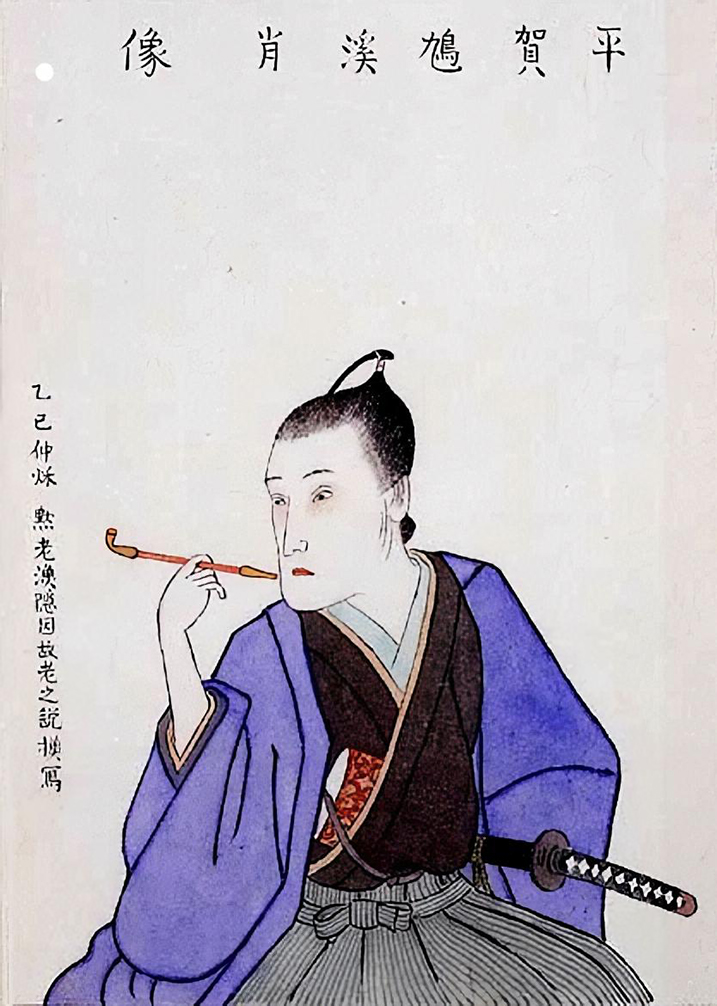 A Portrait of Kyūkei Hiraga (1728–80) by Momuō Kimura (from the cover of Gisaku-sha Kō Hoi). A collection of Keiō University Library.